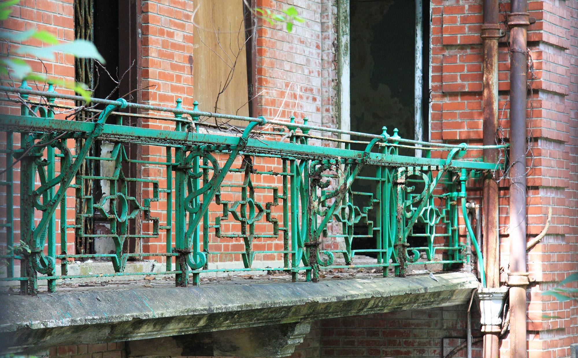 Nam Koo Terrace house. Architecture. Ironwork on one of the balconies.